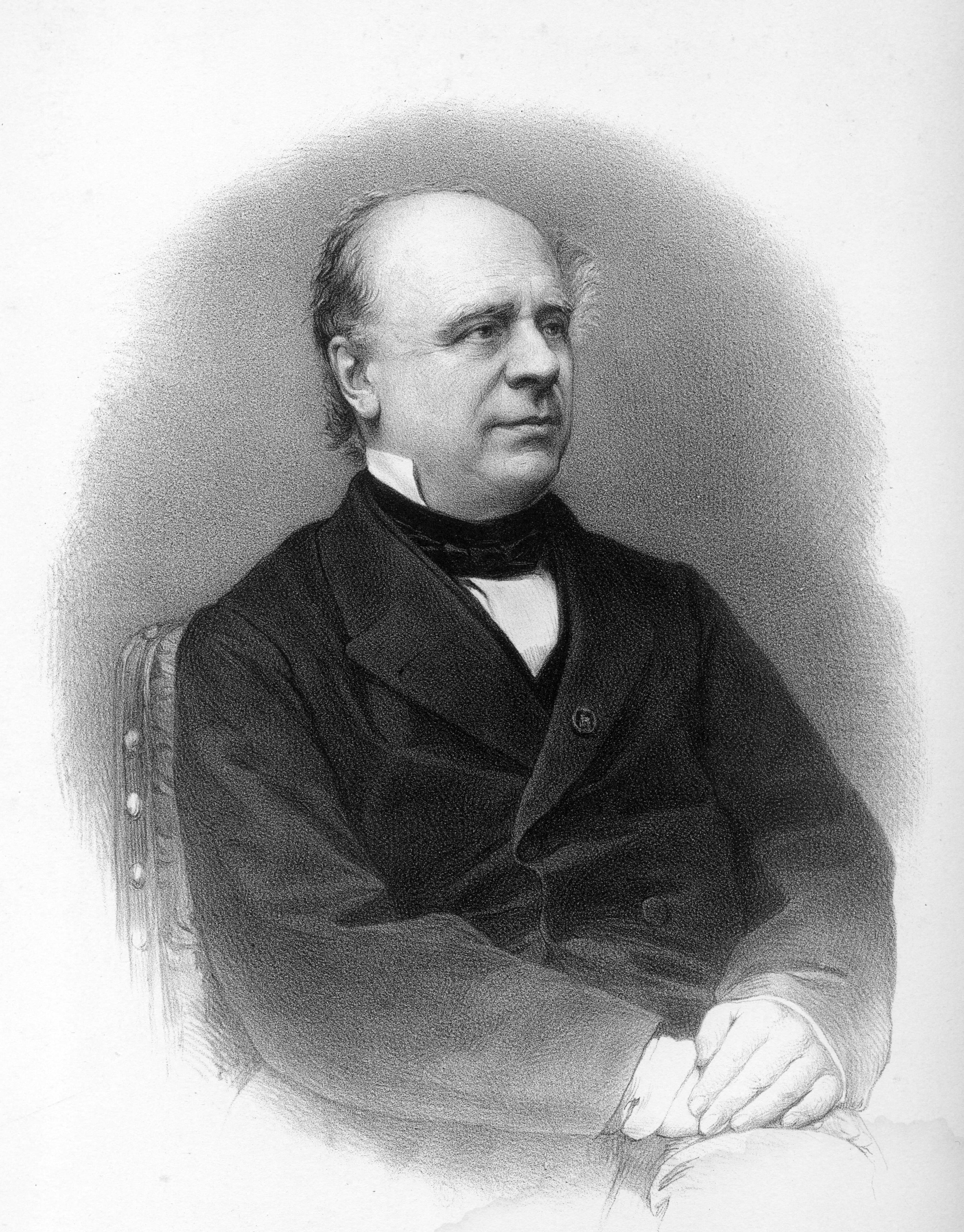 Ustazade Silvestre de Sacy (1801-1879), journalist, member of the Académie française. Curator (1836-1848) and director (1848-1879) of the Bibliothèque Mazarine